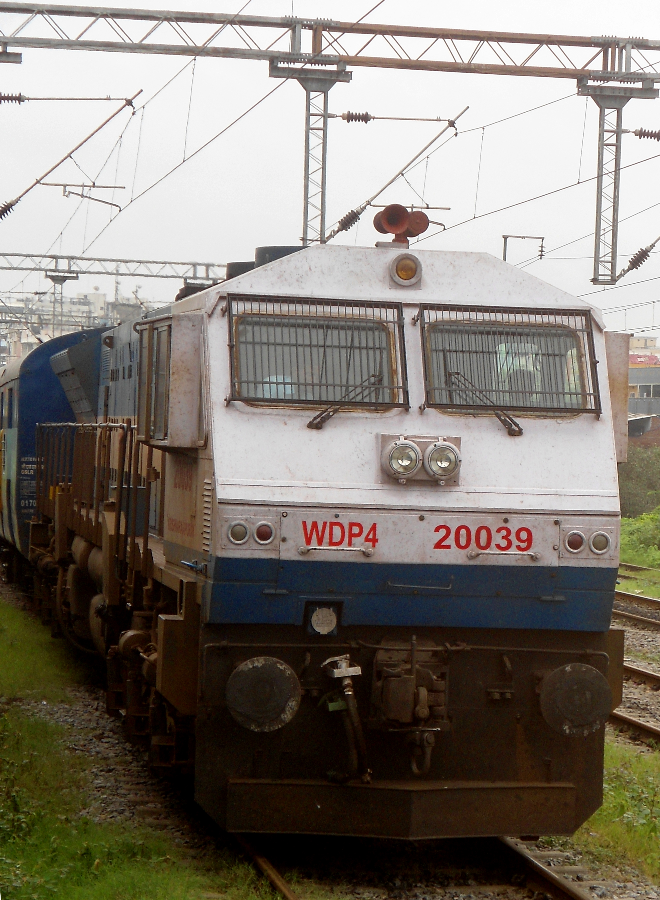 17230 Sabari Express (HYB-Trivandrum) with a WDP4 loco at Necklace Road station, Hyderabad Loco road number: #20039 Loco class: WDP4 Specialised in: Passenger traffic Loco shed: Krishnarajapuram (KJM)